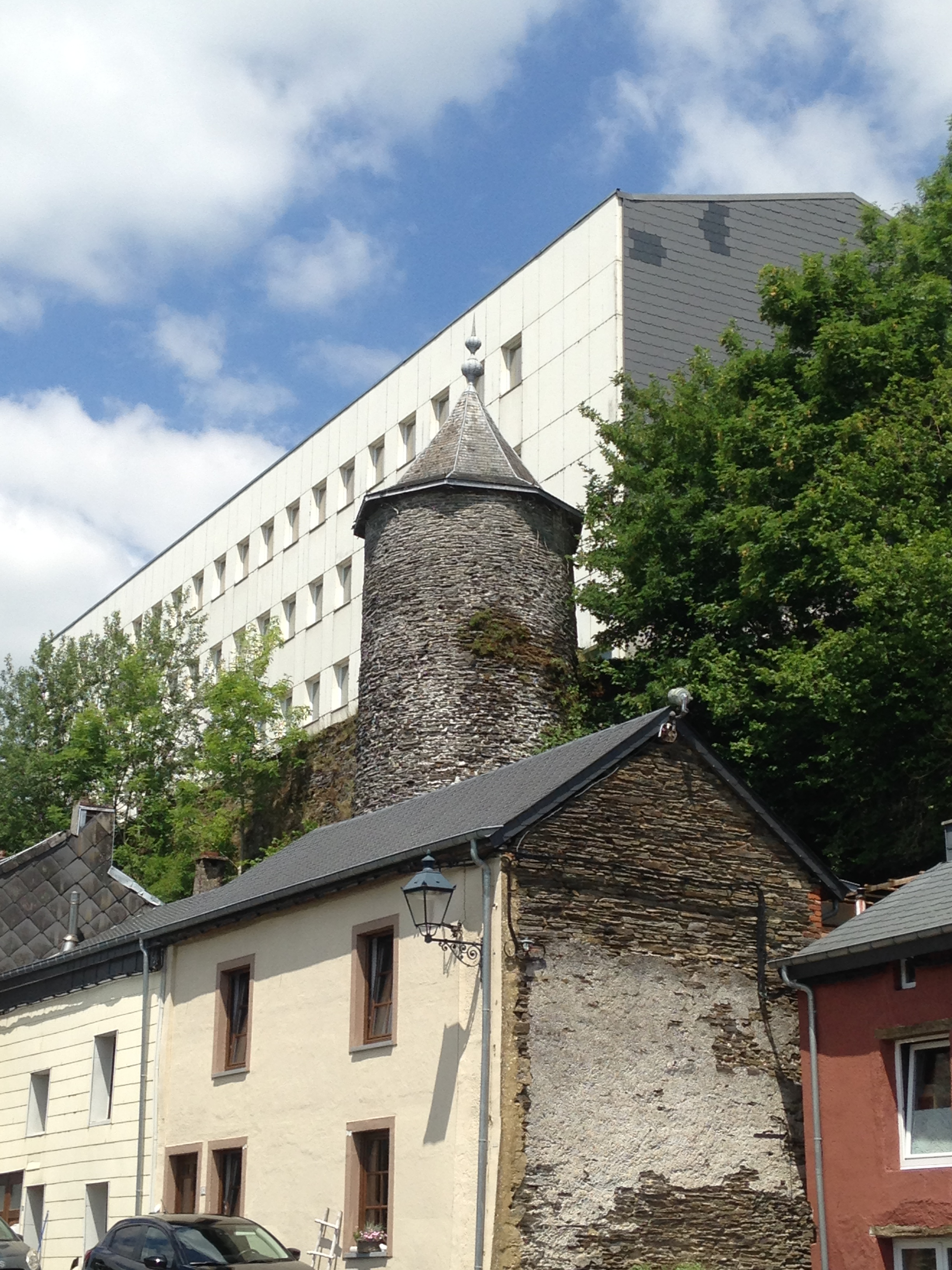 The Tour Griffon or Griffon Tower is the only visible remaining part of the castle in the small Belgian town of Neufchâteau.